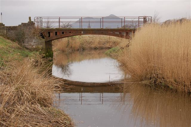 The Black Devon The Black Devon is a tributary of the Forth, it rises in the Cleish Hills about fifteen miles to the east, it enters the Forth south of Alloa, this picture shows where it flows under a bridge on farmland south of Alloa. Dumyat can be seen in the distance.